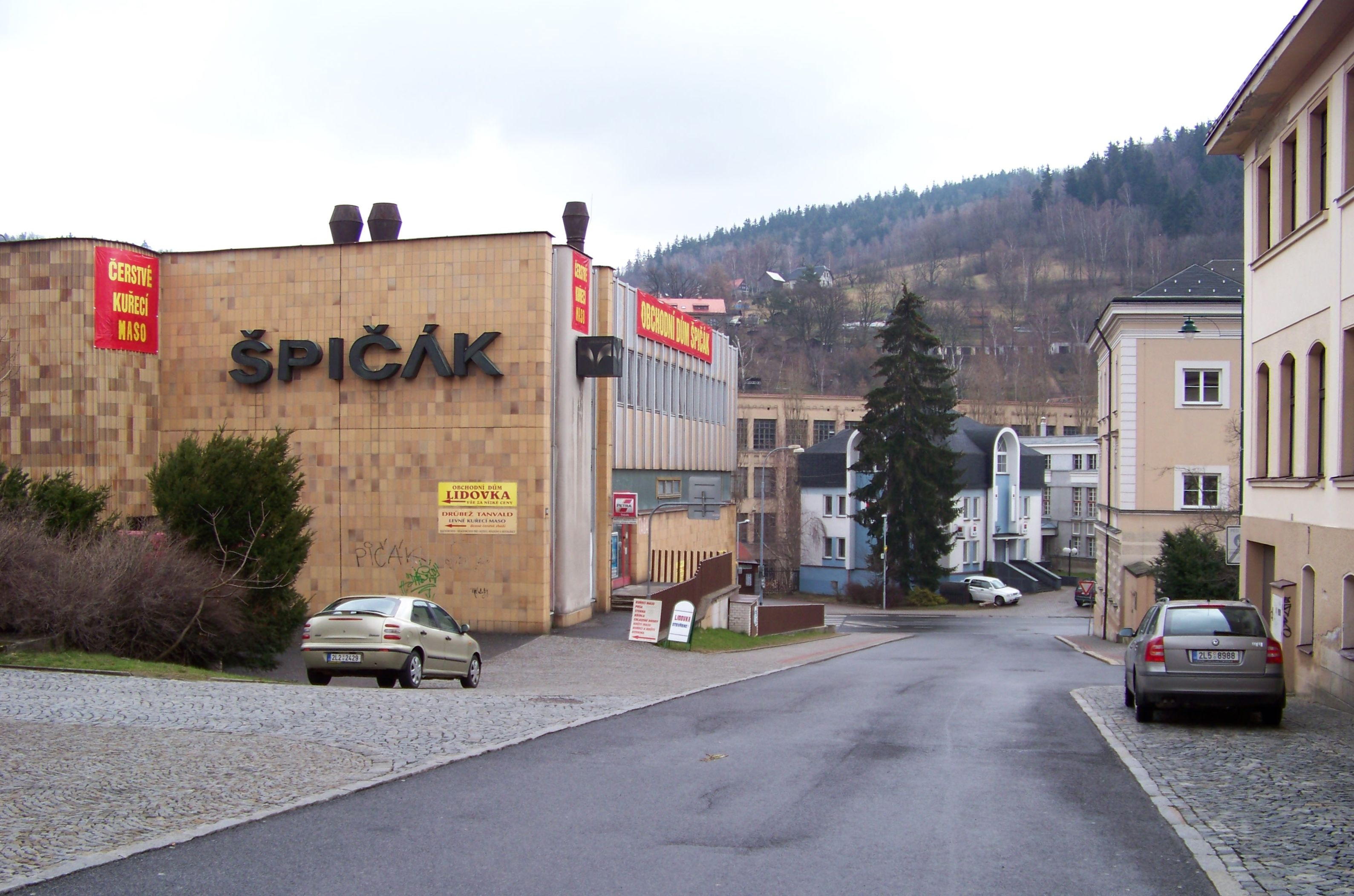 Tanvald, Jablonec nad Nisou District, Liberec Region, the Czech Republic. Poštovní Street.